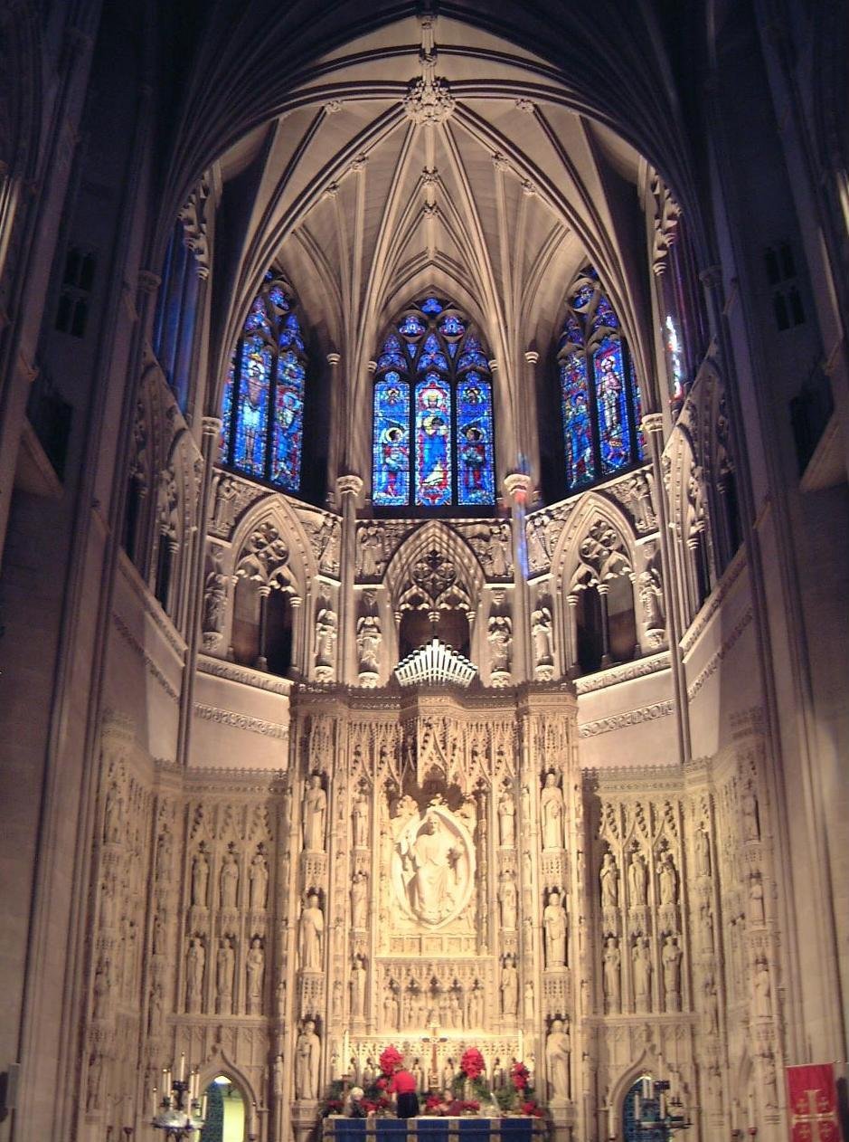 Inside of Washington National Cathedral in Washington, D.C., located at the crossing of Wisconsin and Massachusetts Avenues, in Cathedral Heights neighborhood. Created by User:Alma mater May 11, 2006 with GFDL license allows anyone to use this picture for any purposes.